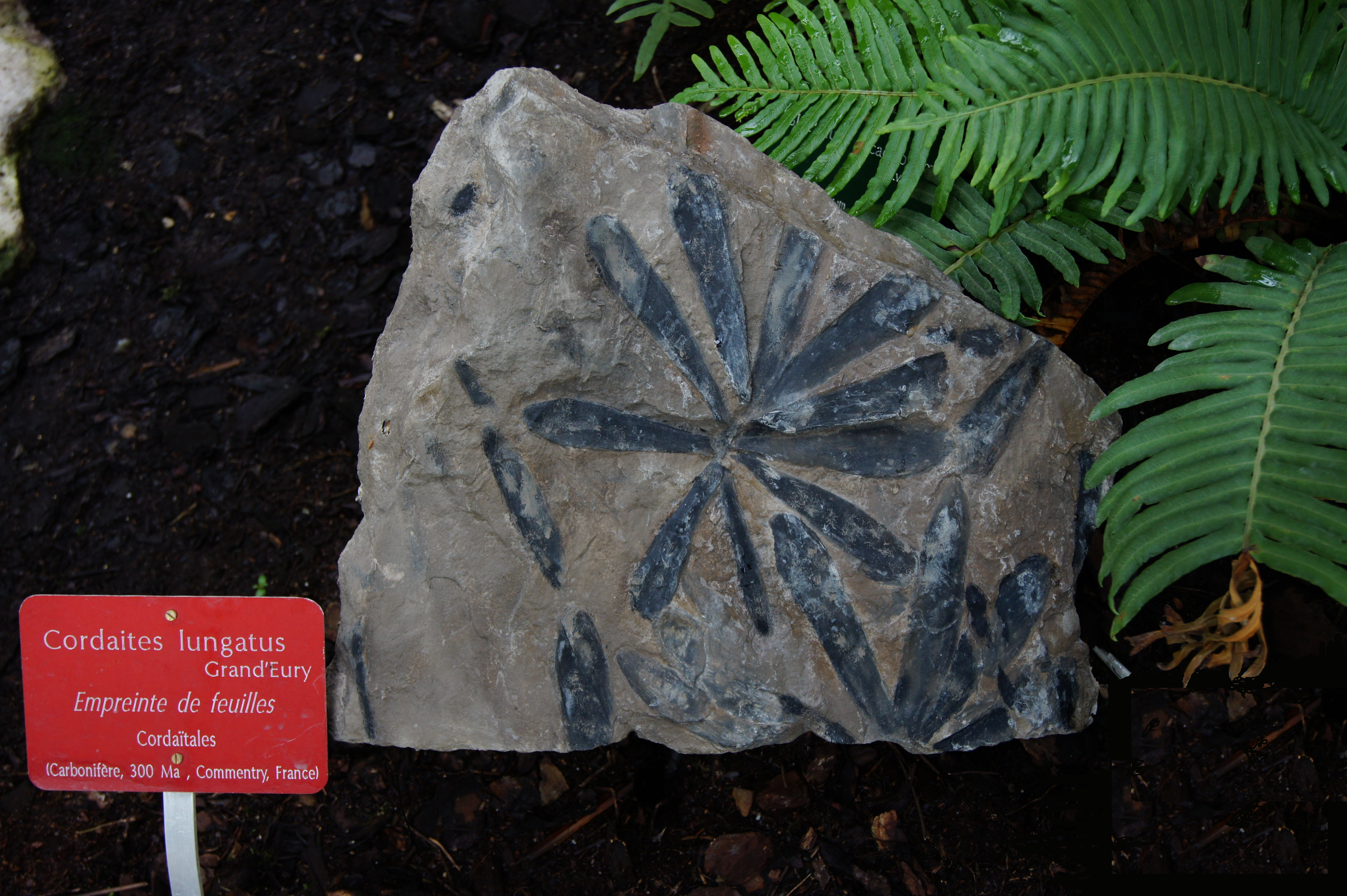 a print of an extinct plant (Cordaites lungatus), ca. 300 millions years, near modern ferns, Jardin des Plantes, Paris. Identification plaque.